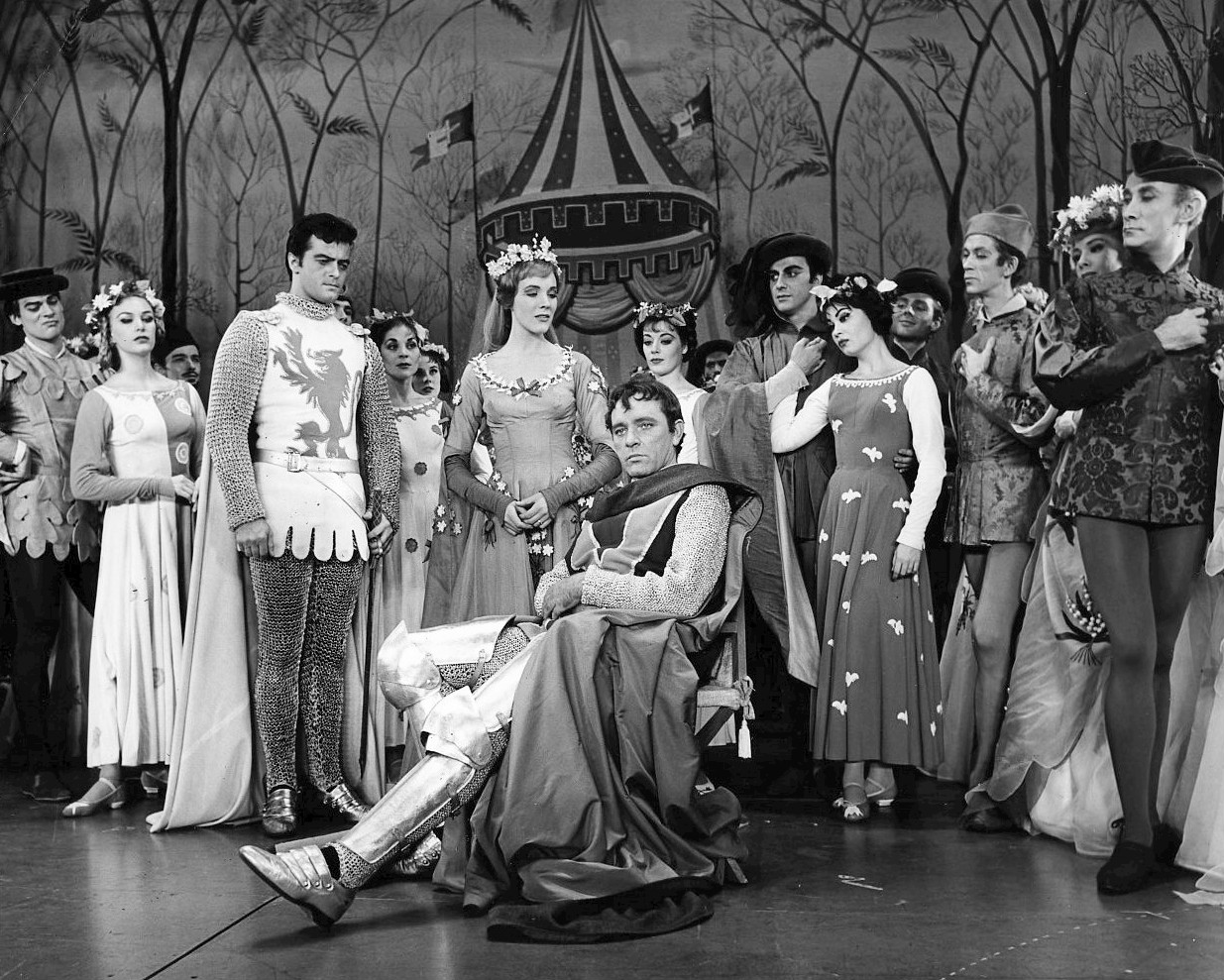 Scene from the original Broadway production of the musical Camelot. At center are Robert Goulet (Lancelot), Julie Andrews (Guenevere) and Richard Burton (Arthur).